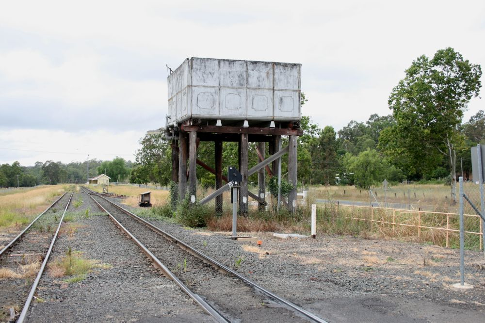 Murphys Creek Railway Complex (2009)